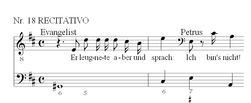 Beginning of a Recitativo in the St. John's Passion of J. S. Bach. capella file.